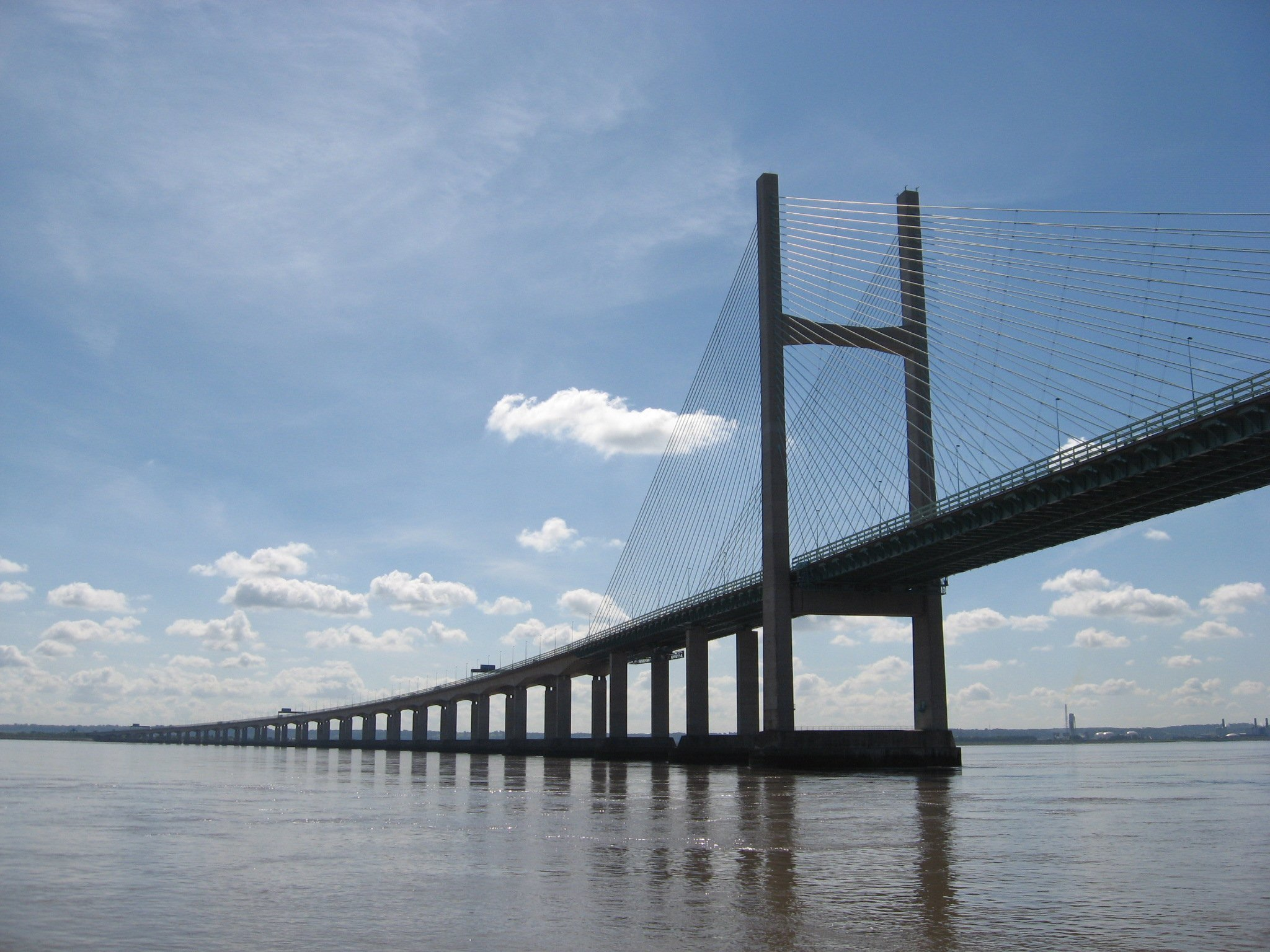 Second Severn Crossing from the water. The bridge carries the M4 Motorway between England and Wales